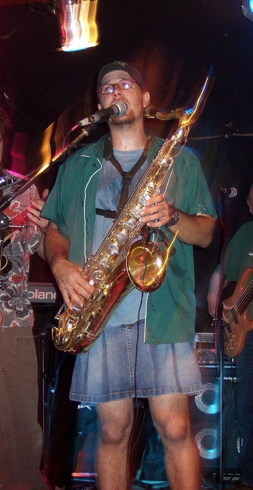 A man in a band, wearing a skirt and playing a saxophone.